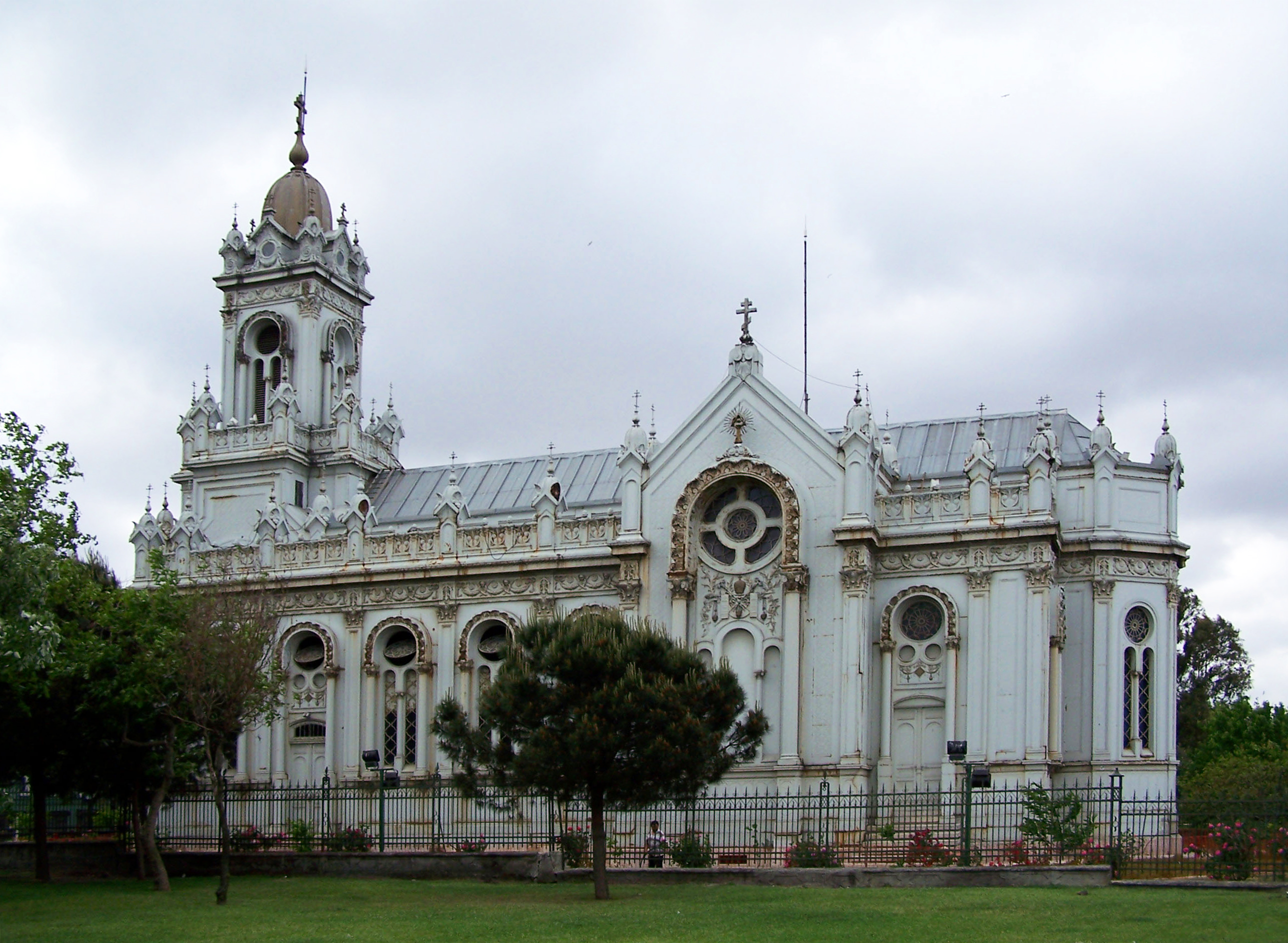 Bulgarian Orthodox Saint Stefan Church in Fener, Fatih